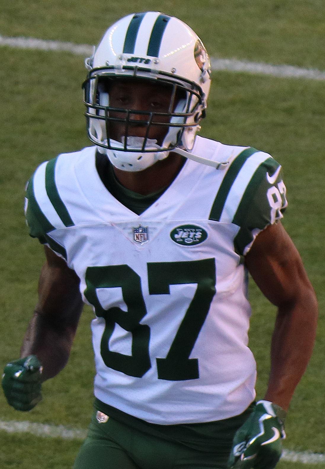 JoJo Natson, a National Football League player.